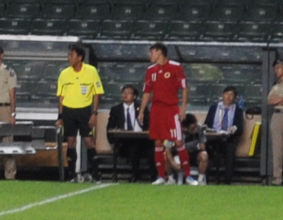 "James Ha subon" 2012 AFC Men's Pre-Olympic Tournament First Round 23 June 2011 Hong Kong vs Uzbekistan 34th-minute